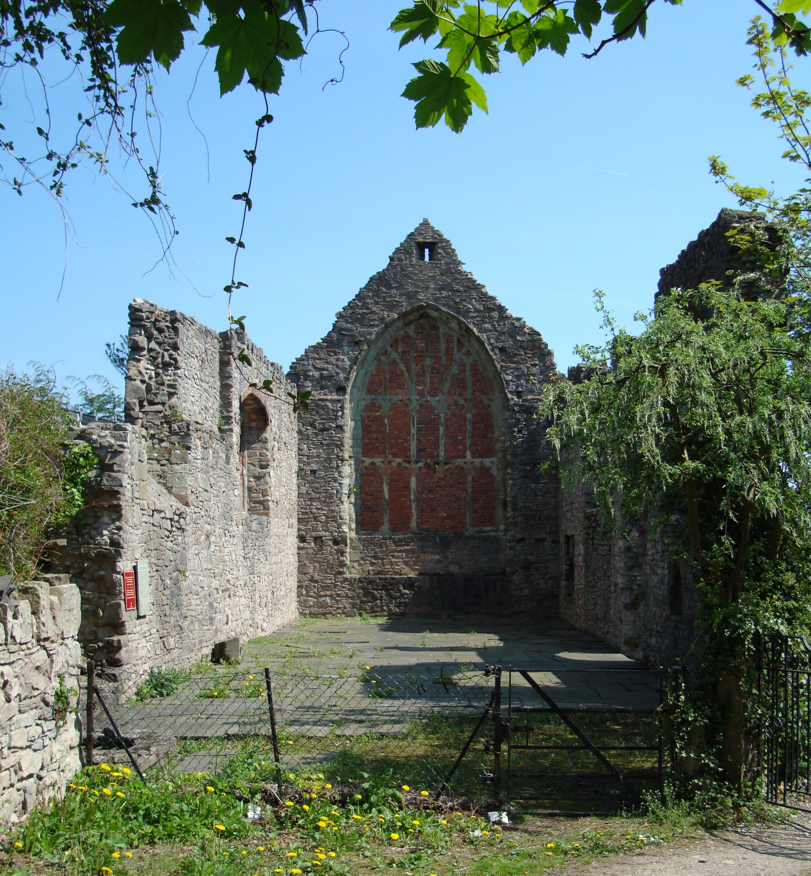 Photograph of Denbigh Friary, Denbighshire, Wales